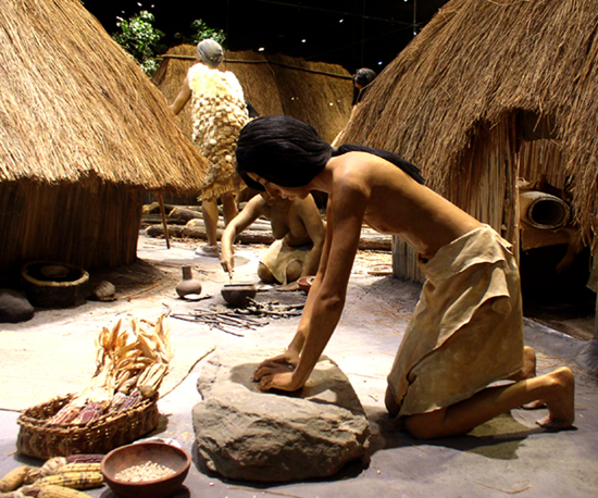 A diorama showing a Mississippian culture woman grinding maize with a stone mortar, from the Cahokia site museum in Collinsville, Illinois.